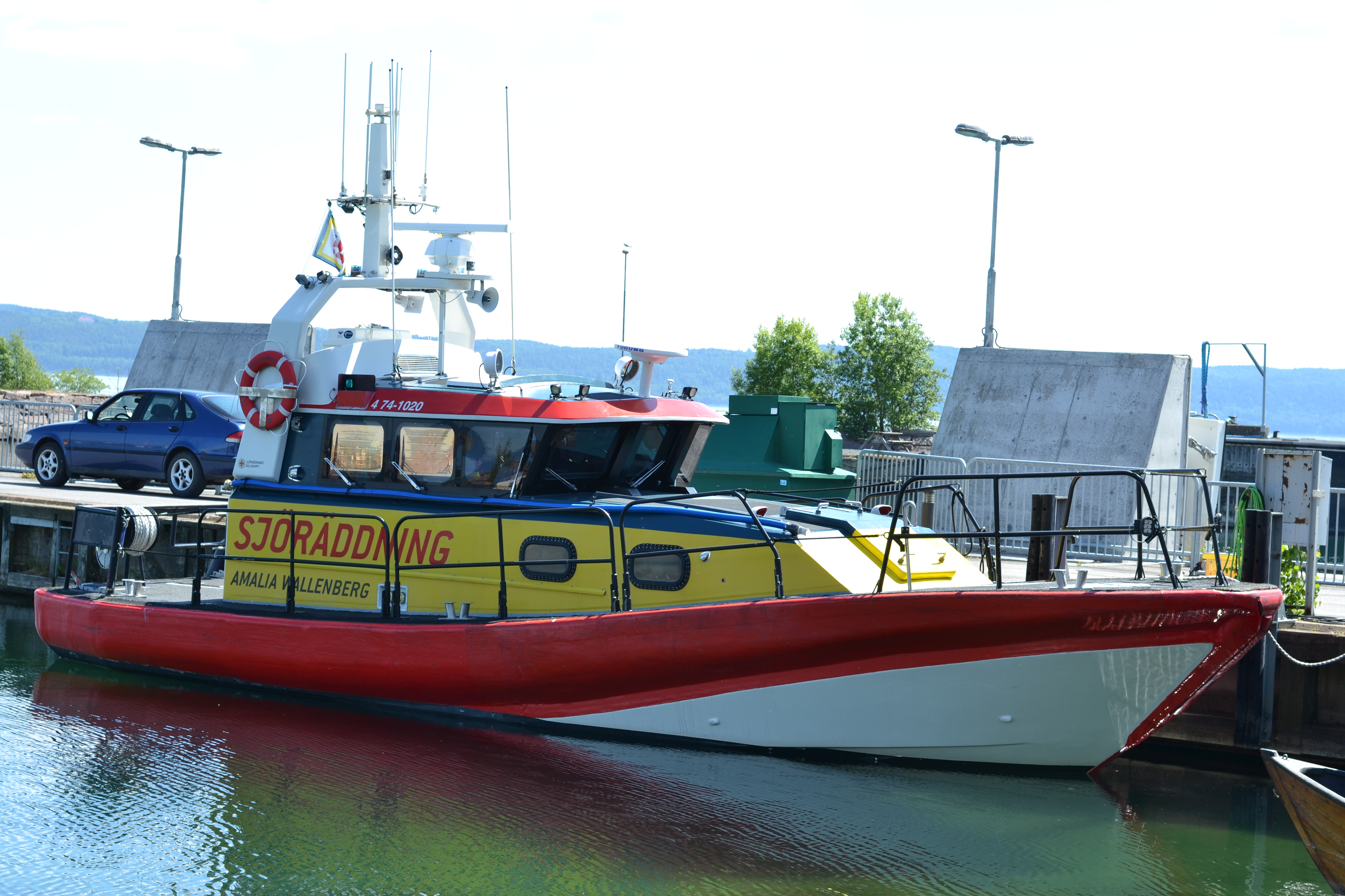 Rescueboat, Rescue Amalia Wallenberg